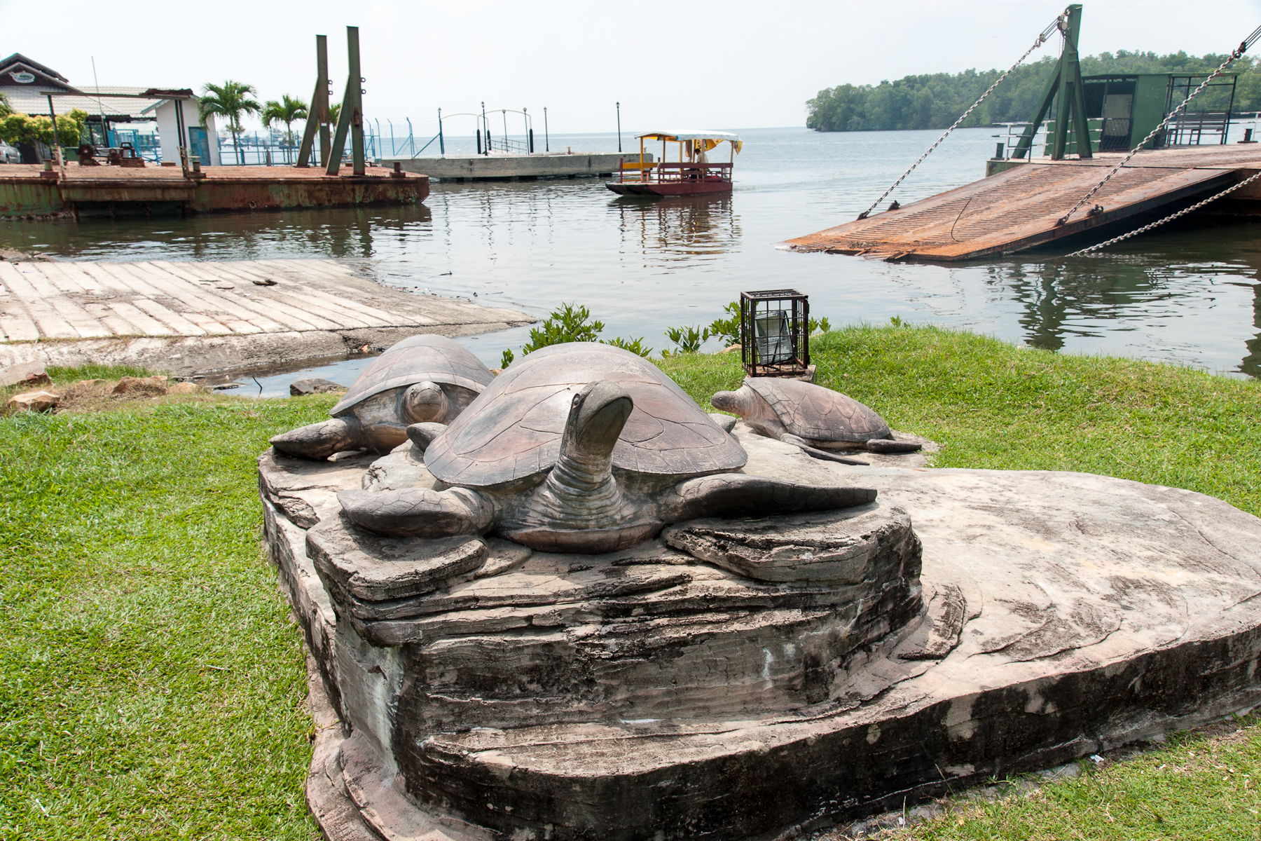 The Turtles symbol of Kuala Penyu - and the old river ferry in the Background)